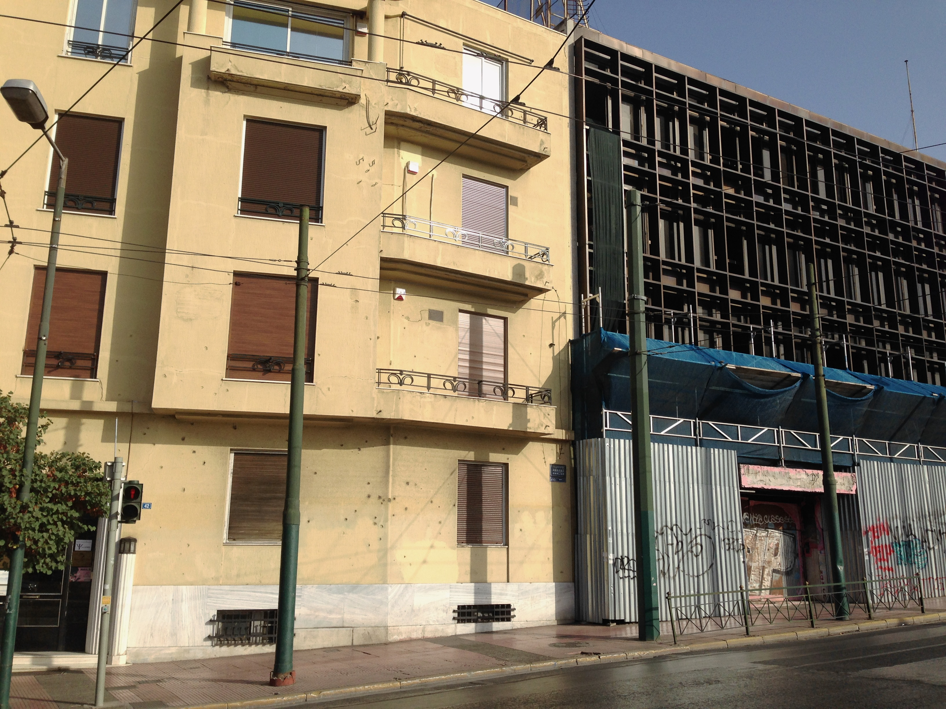 This building is on Amalias avenue and received many bullets during Dekemvriana in 1944.